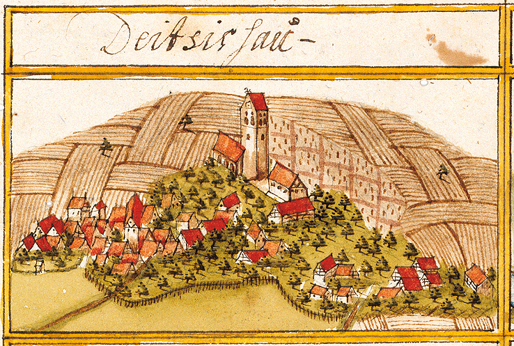 View of Deizisau from the forest register books created by Andreas Kieser